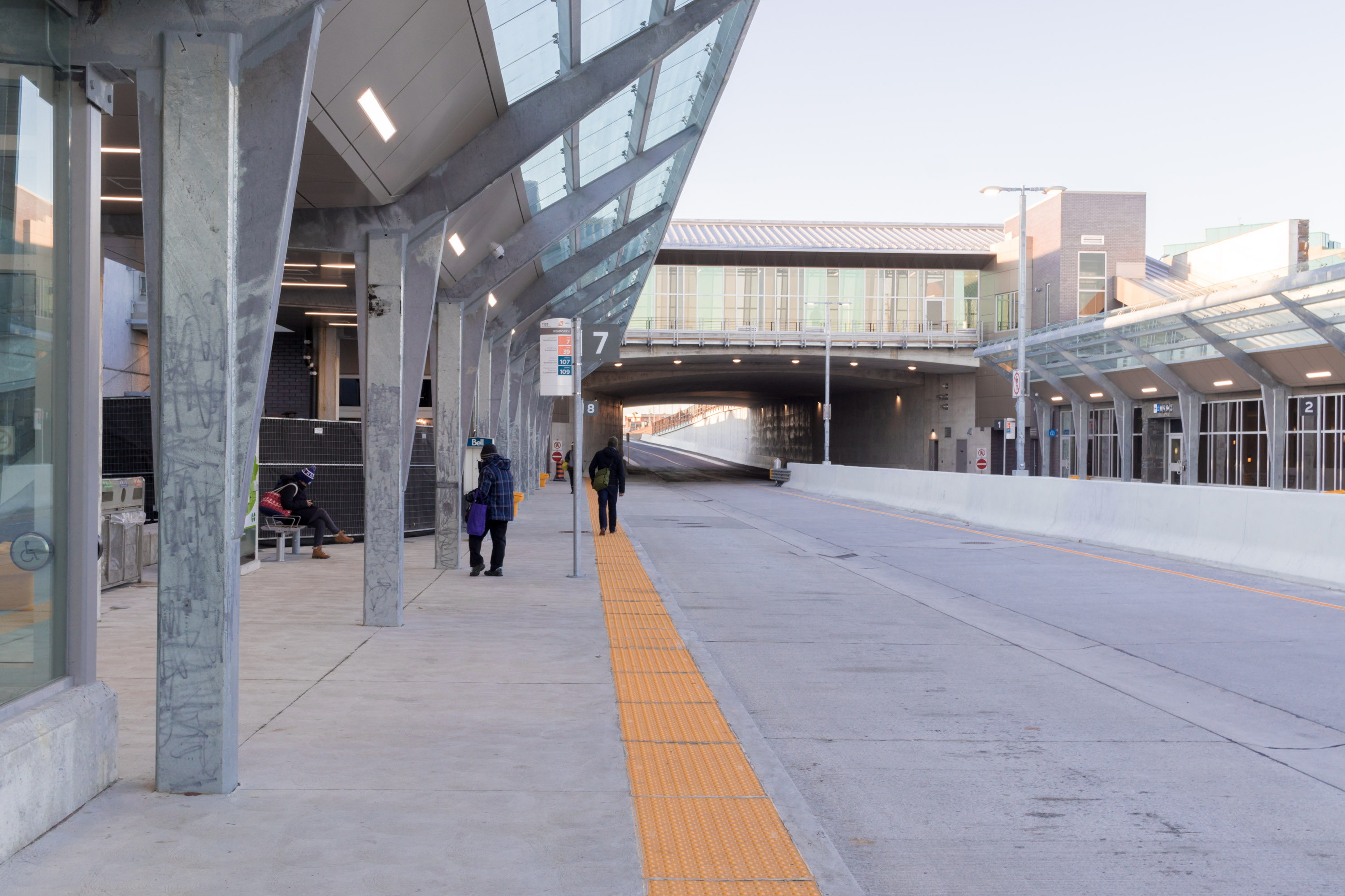 Renforth Station Platform Looking towards Mississauga